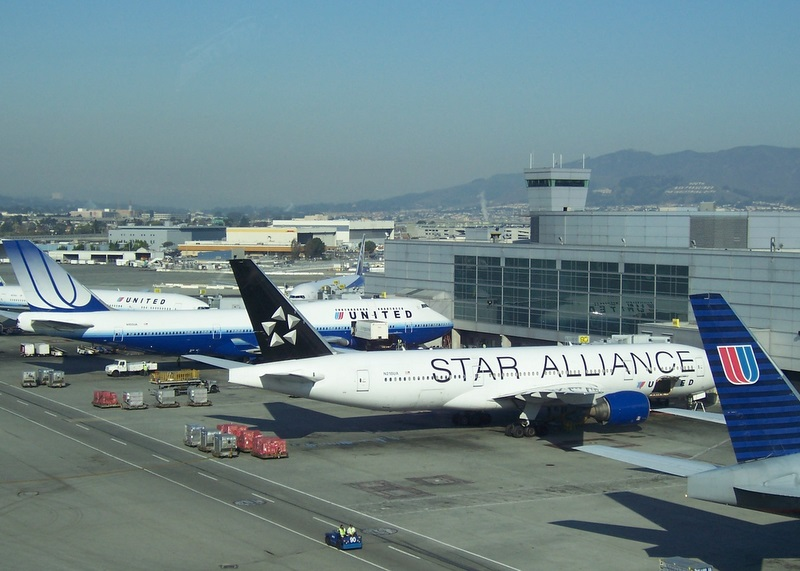 United B777-222ER in SFO